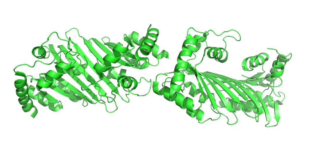 APOBEC-2 is a member of the APOBEC (apolipoprotein B messenger RNA-editing enzyme catalytic) family. Rendering based on PDB ID: 2NYT.